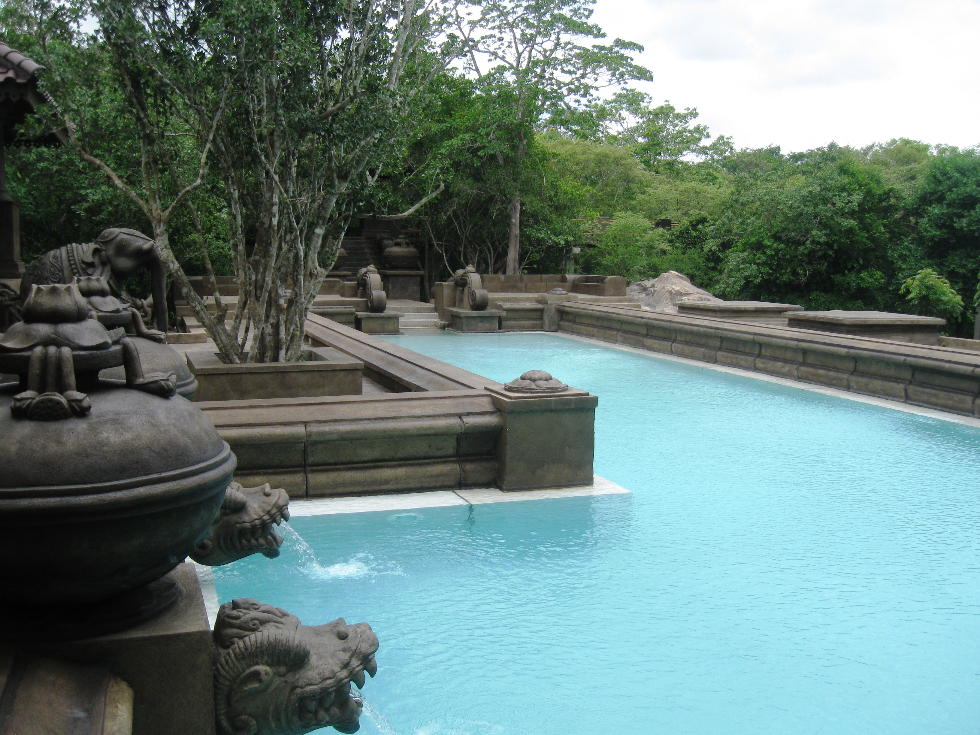 Photograph of Forest Rock Garden Hotel, Anuradhapura, Sri Lanka (swimming pool)